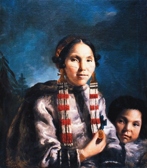 Painting of Inuit Mikak and her son Tukauk. Painting by John Russell in 1769, commissioned by Joseph Banks. This painting currently hangs in the Institute of Cultural and Social anthropology, Georg-august University of Göttingen, Germany